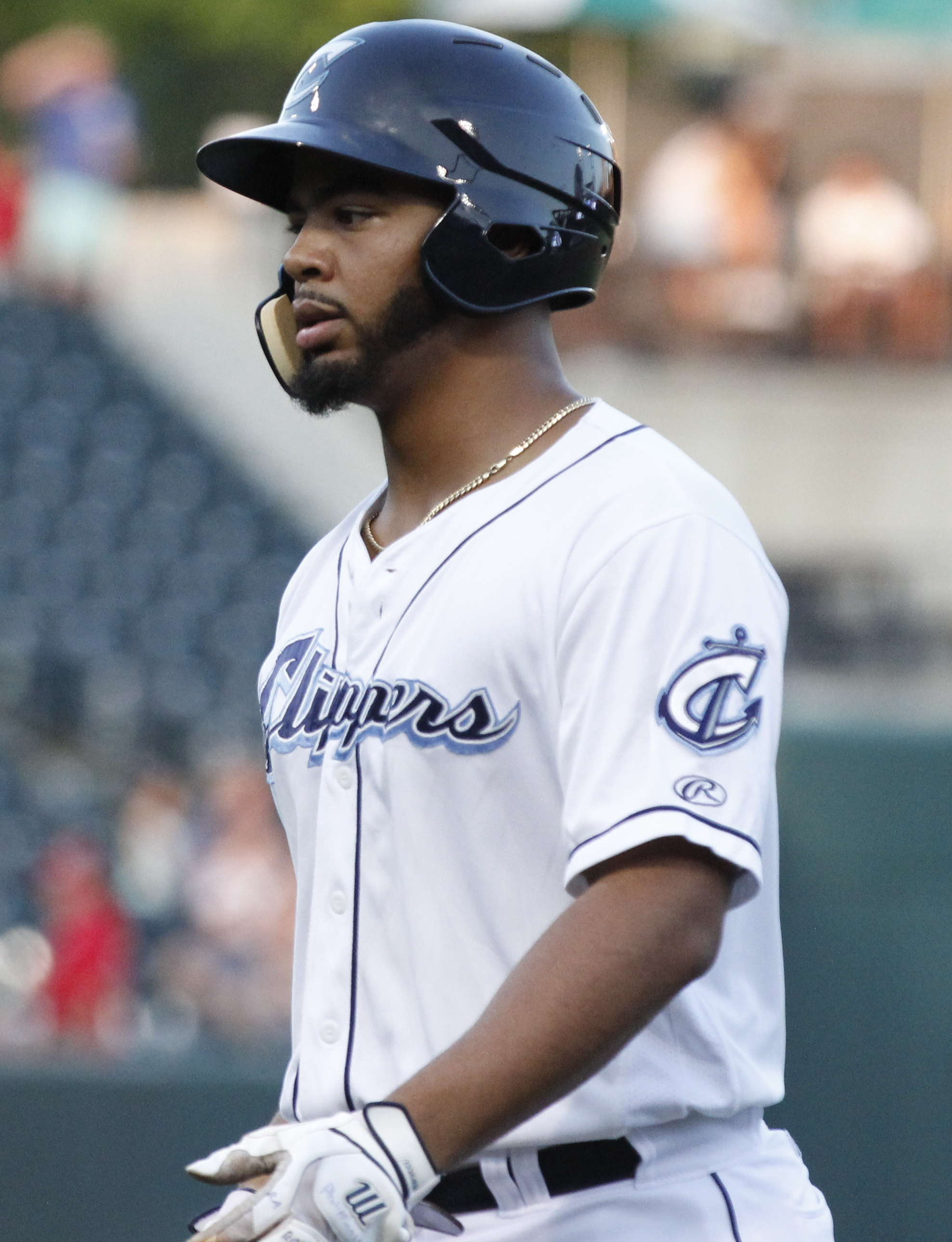 Bobby Bradley with the Columbus Clippers during a 2018 game at Huntington Park in Columbus, Ohio